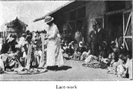 Near East relief in Bitlis